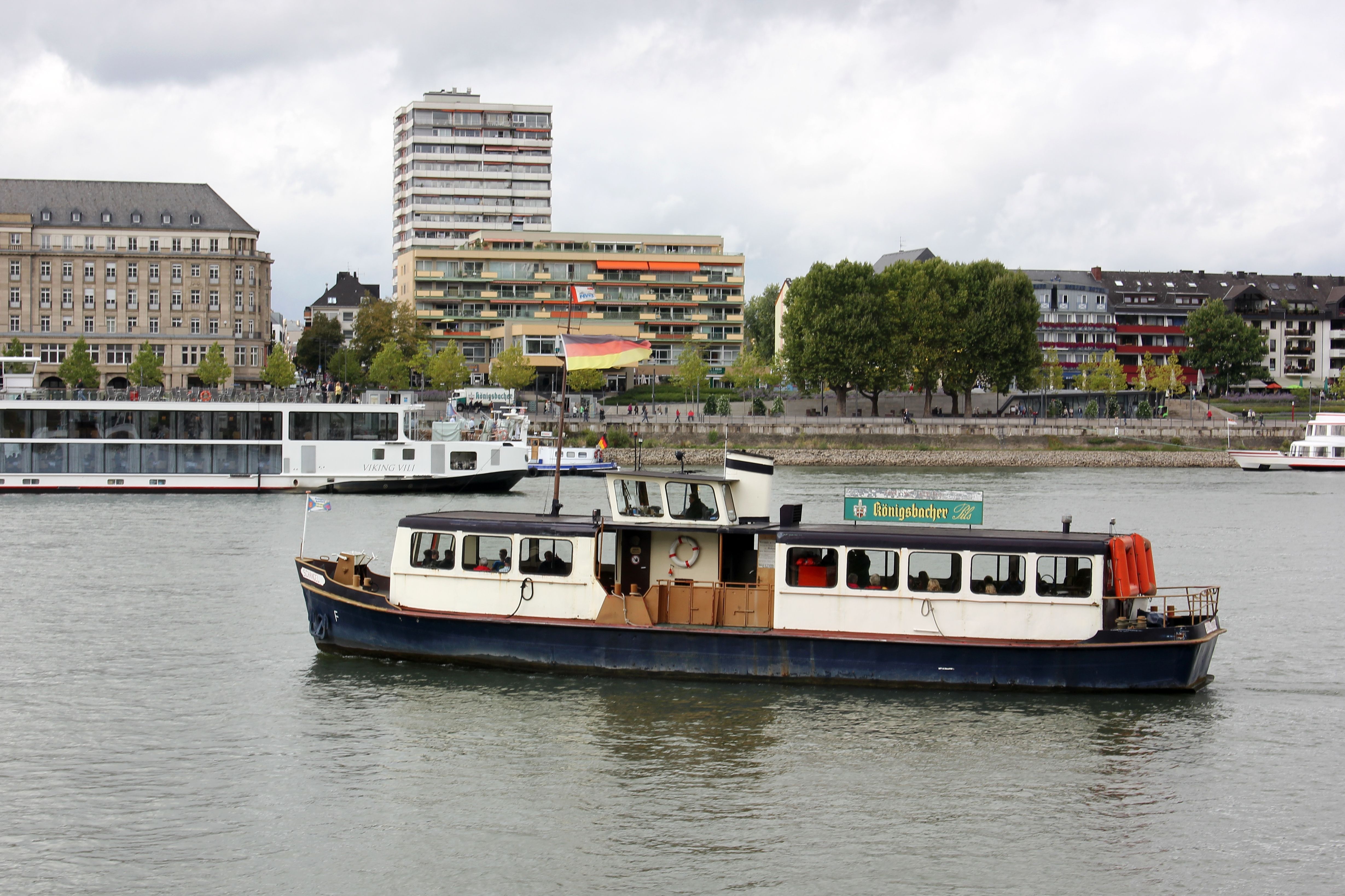 Ferryboat „Schängel“ on the way from Ehrenbreitstein to Koblenz. The ship was built in 1953. Length: 21 m, width: 5,49 m, draught: 1,10 m